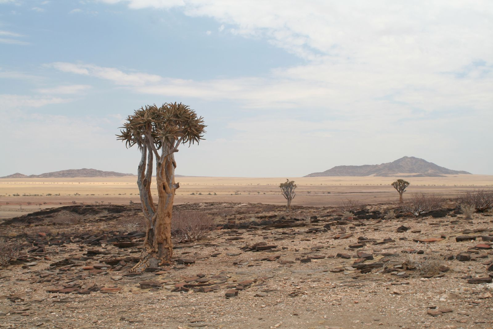 Quiver Trees north of Swakopmund in the Skeleton Coast Park, Namibia